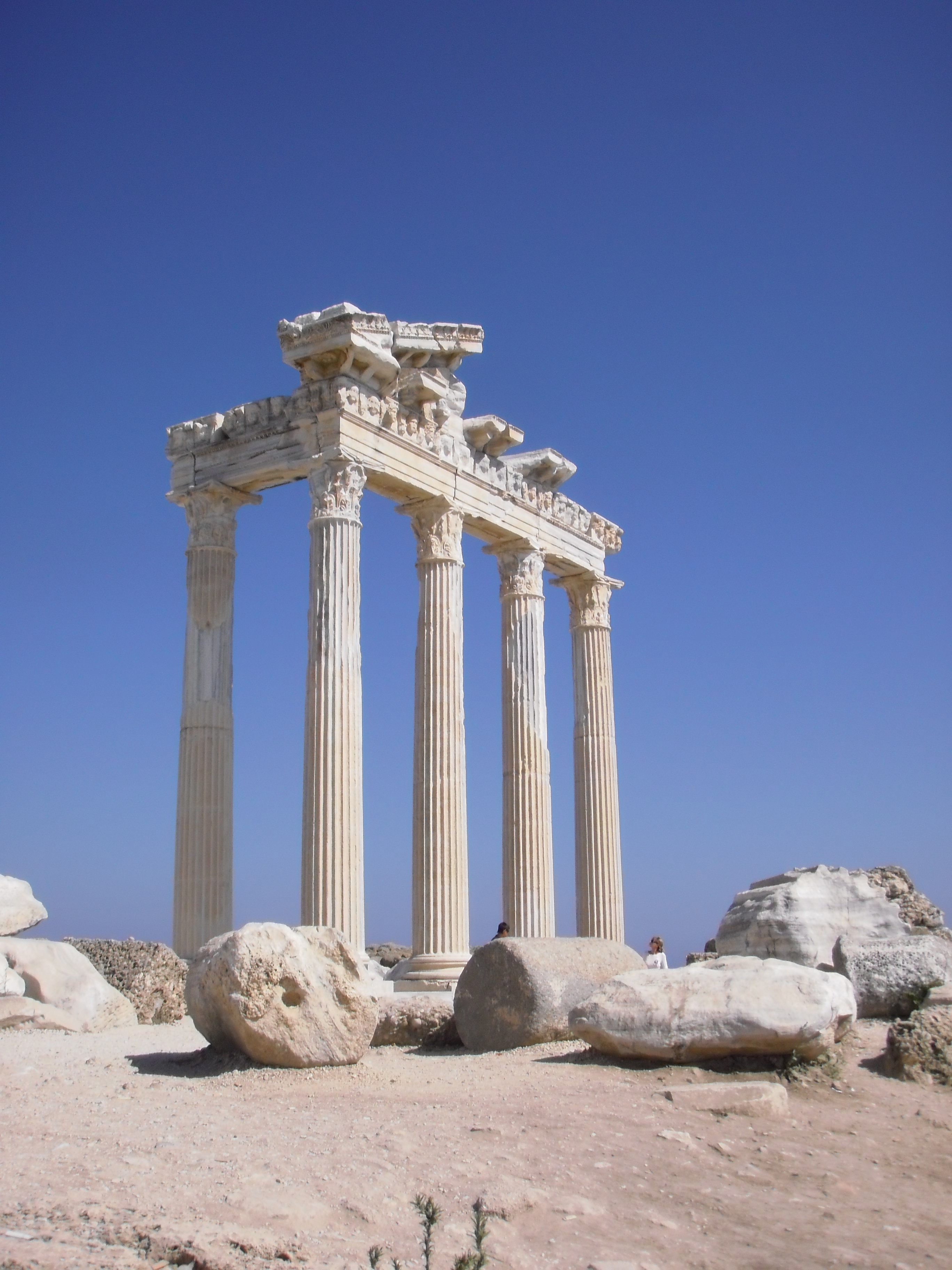 The Apollo Theatre in the Turkish city Side.